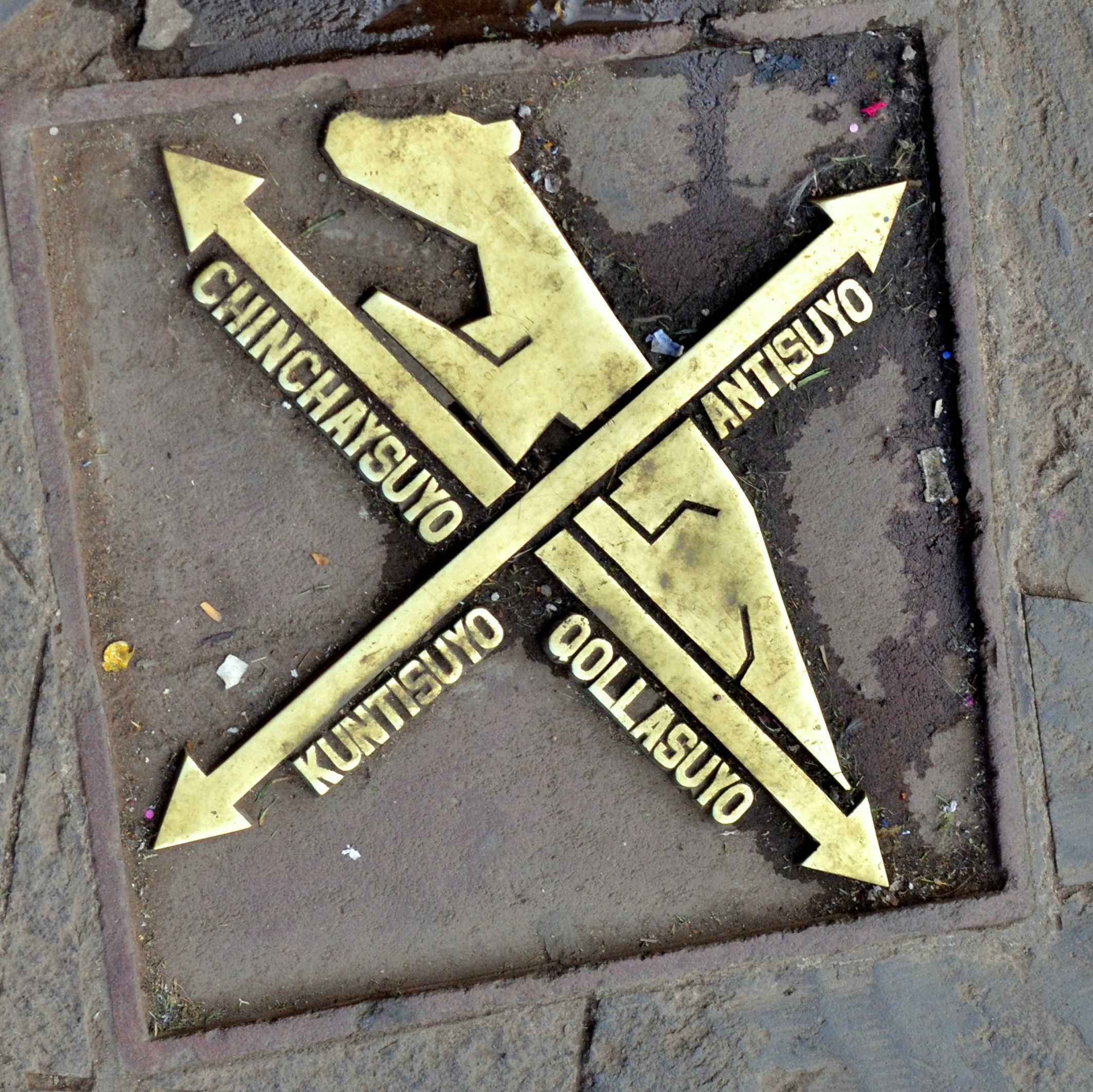 this modern paque in Cusco, Peru indicates the 4 directions of the 4 regions (suyus) of the Inka Empire